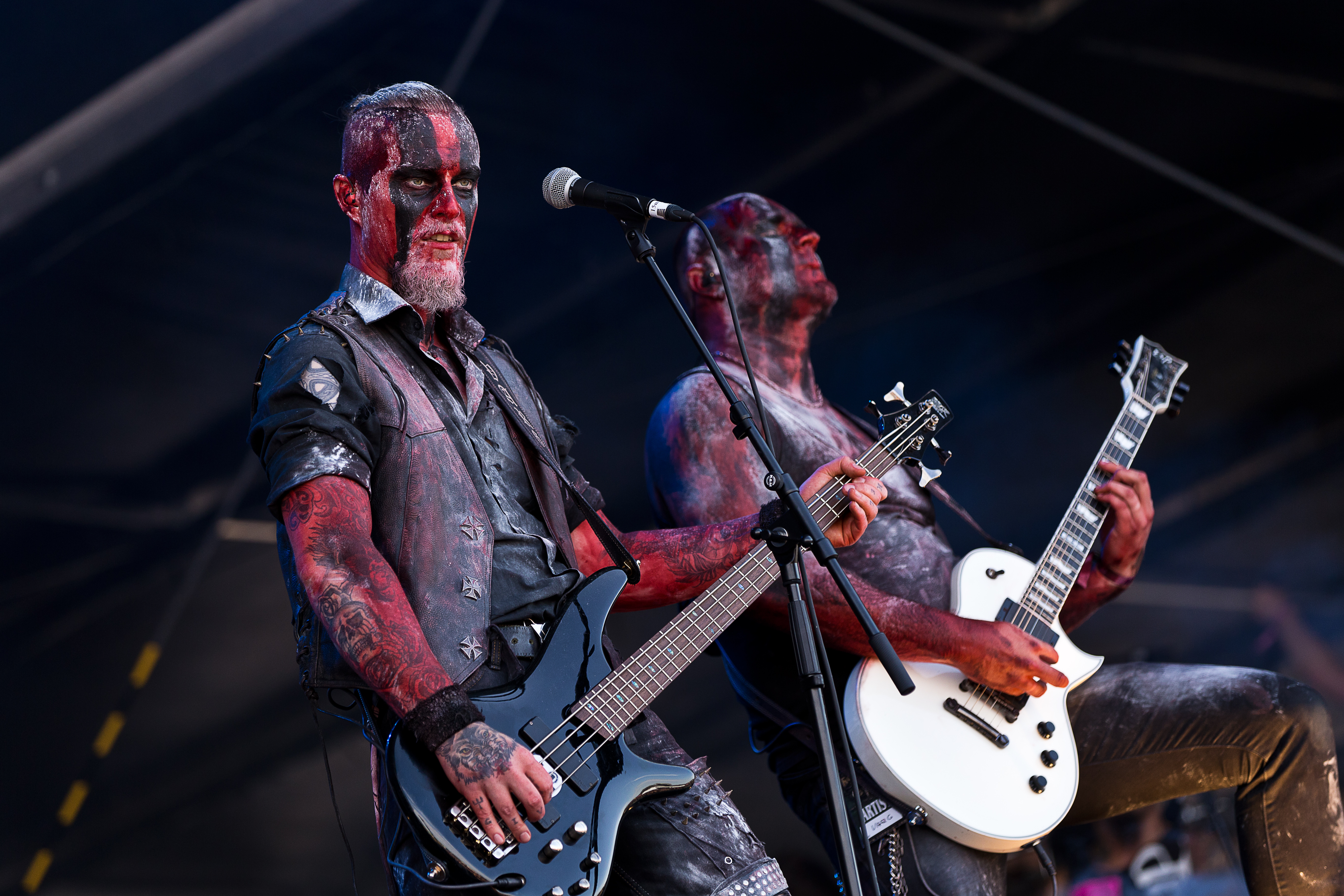 The German pagan metal band Varg at the Rockharz Open Air 2015 in Ballenstedt/Germany.